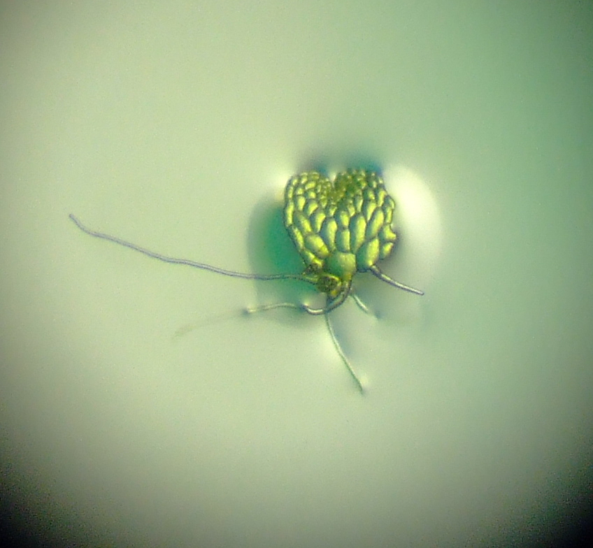 A low power photomicrograph of a 3 week old Dryopteris affinis gametophyte. Diameter between 0.35 to 0.4 mm.